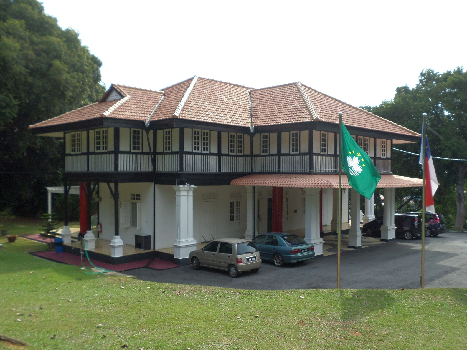 Macau Gallery, Bukit Peringgit, Central Melaka, Melaka, MalaysiaBahasa Melayu: Galeri Macau, Bukit Peringgit, Melaka Tengah, Melaka, Malaysia